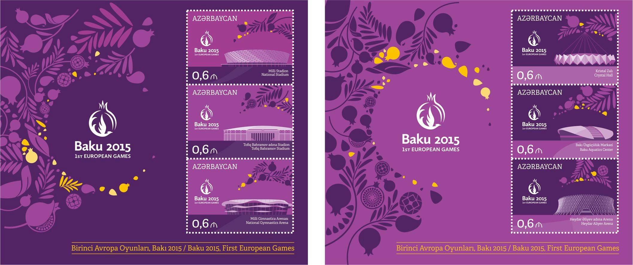 Coming soon - First European Games. Baku 2015.